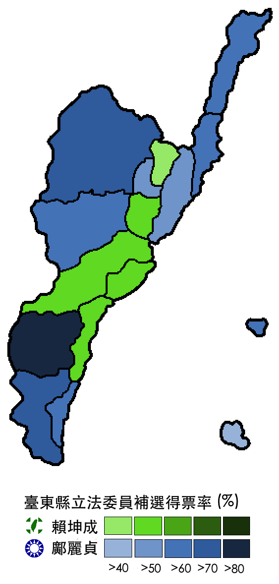 Taitung county legislative yuan by-election 2010